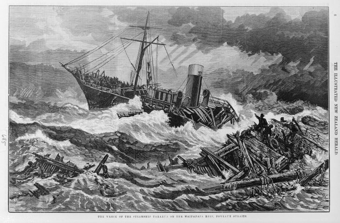 Wreck of SS Tarurua. Woodcut print.